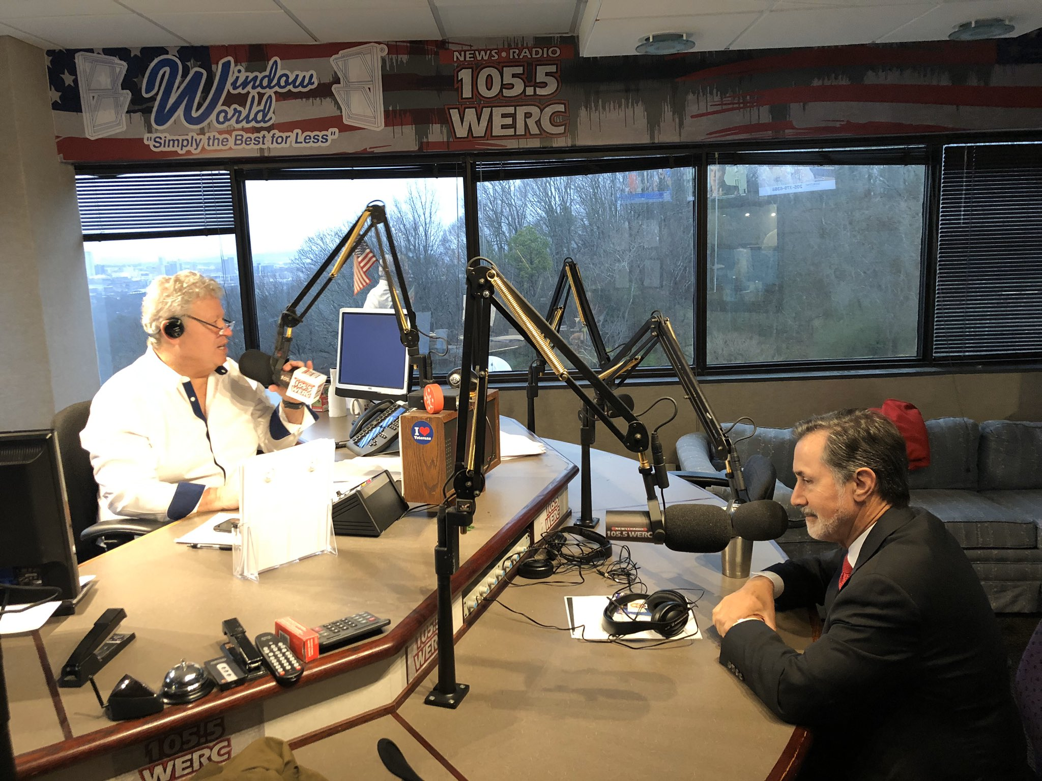 Live now with JT on @1055WERC! Tune in, #AL06!